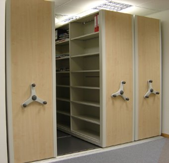 example of Mobile shelving / roller racking system